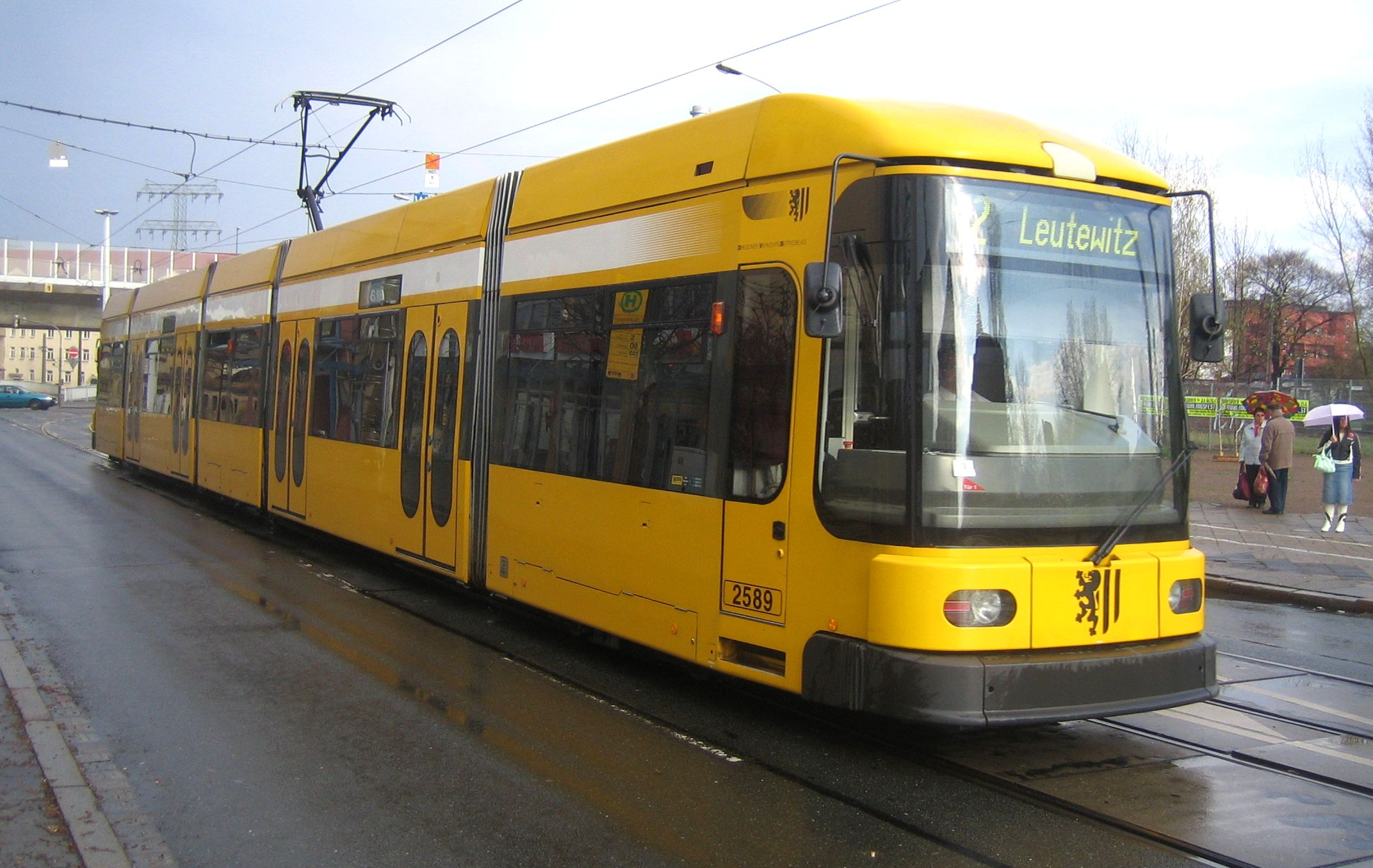 Low-floor tram NGT6DD of the Dresden Public Transport (car 2589) Line 12 to Dresden-Leutewitz, at the stop Tharandter Straße